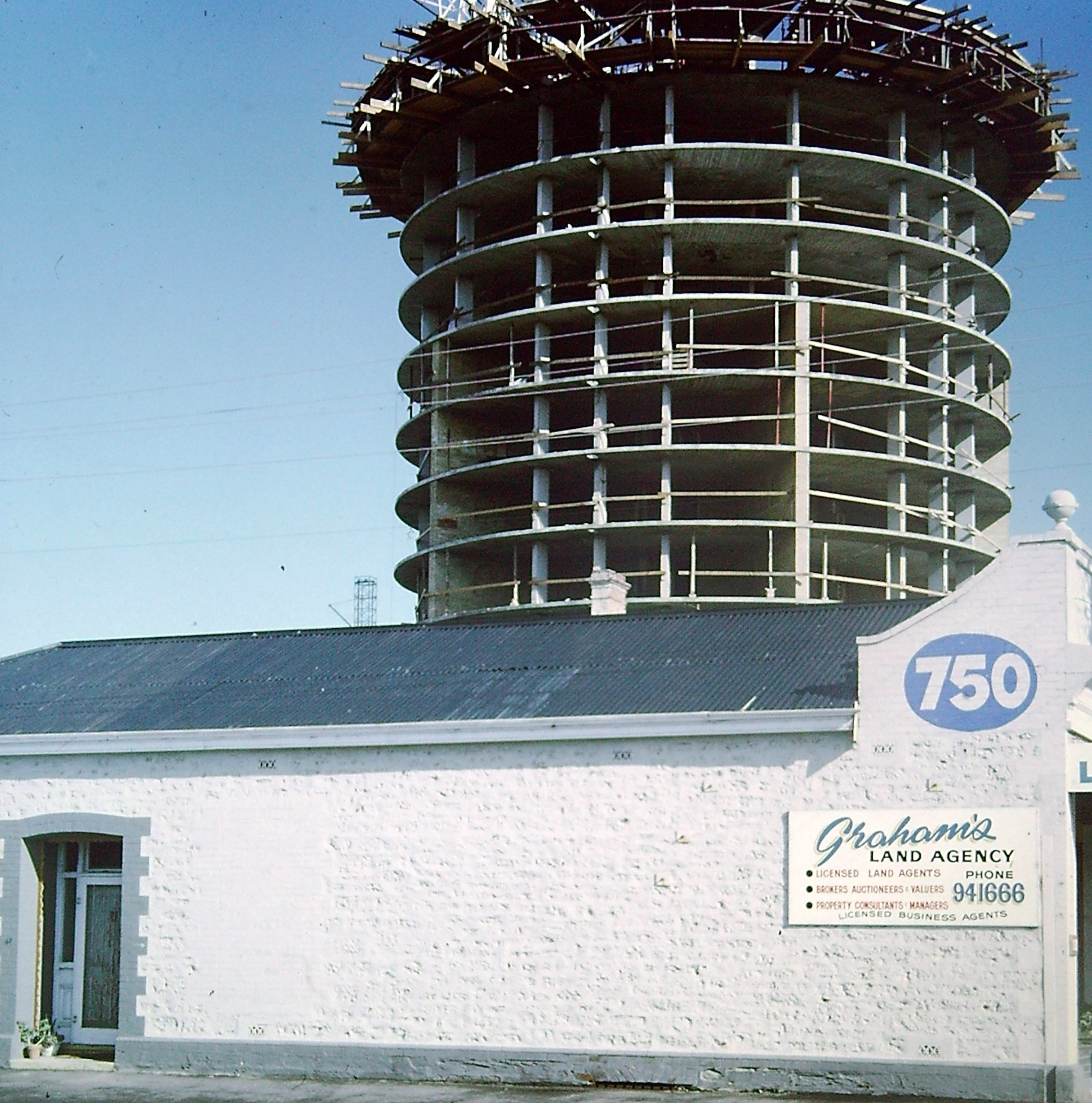 Photo digitized from slide during the development of Atlantic Tower in the 1970's.